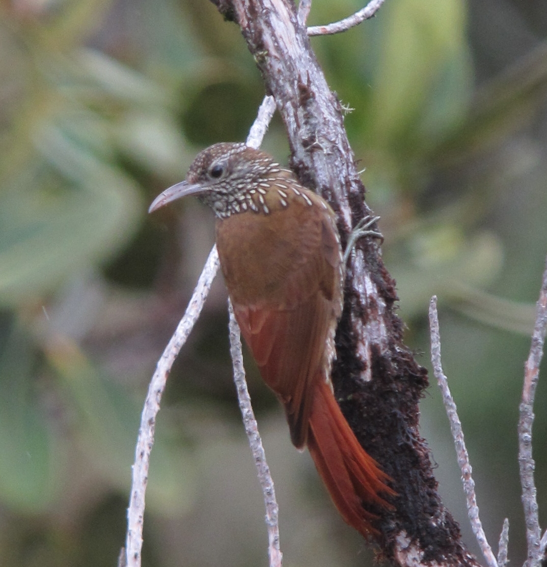 Montane woodcreeper at Sonsón, Antioquía, Colombia